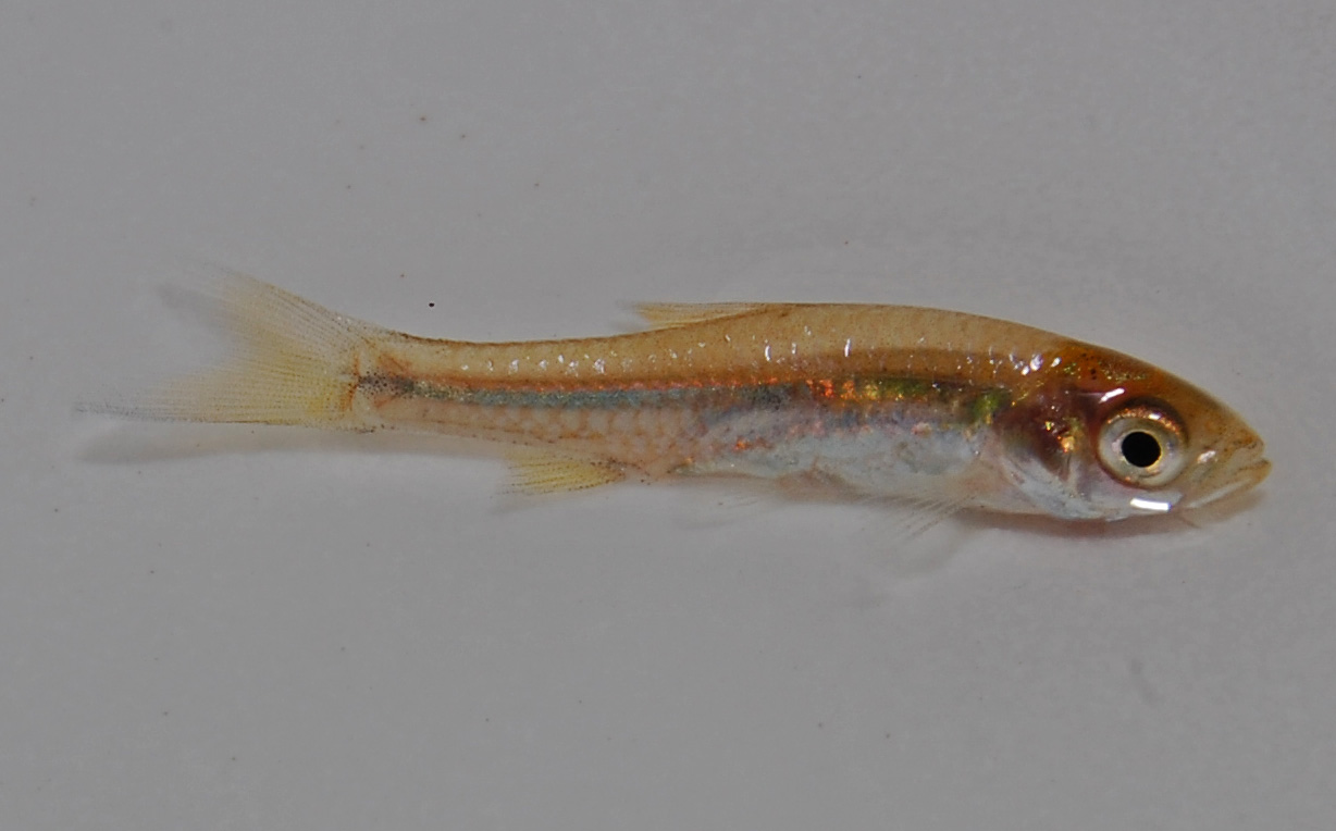 Rasbora argyrotaenia juvenile (19mm SL). From Cihideung (River) drainage (6°33.983’S 106°43.459’E), Bogor, West Java, Indonesia